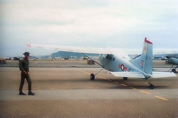 A Cessna U-17A (USAF s/n 63-13021) of the South Vietnamese Air Force (VNAF) at Nha Trang Air Base.